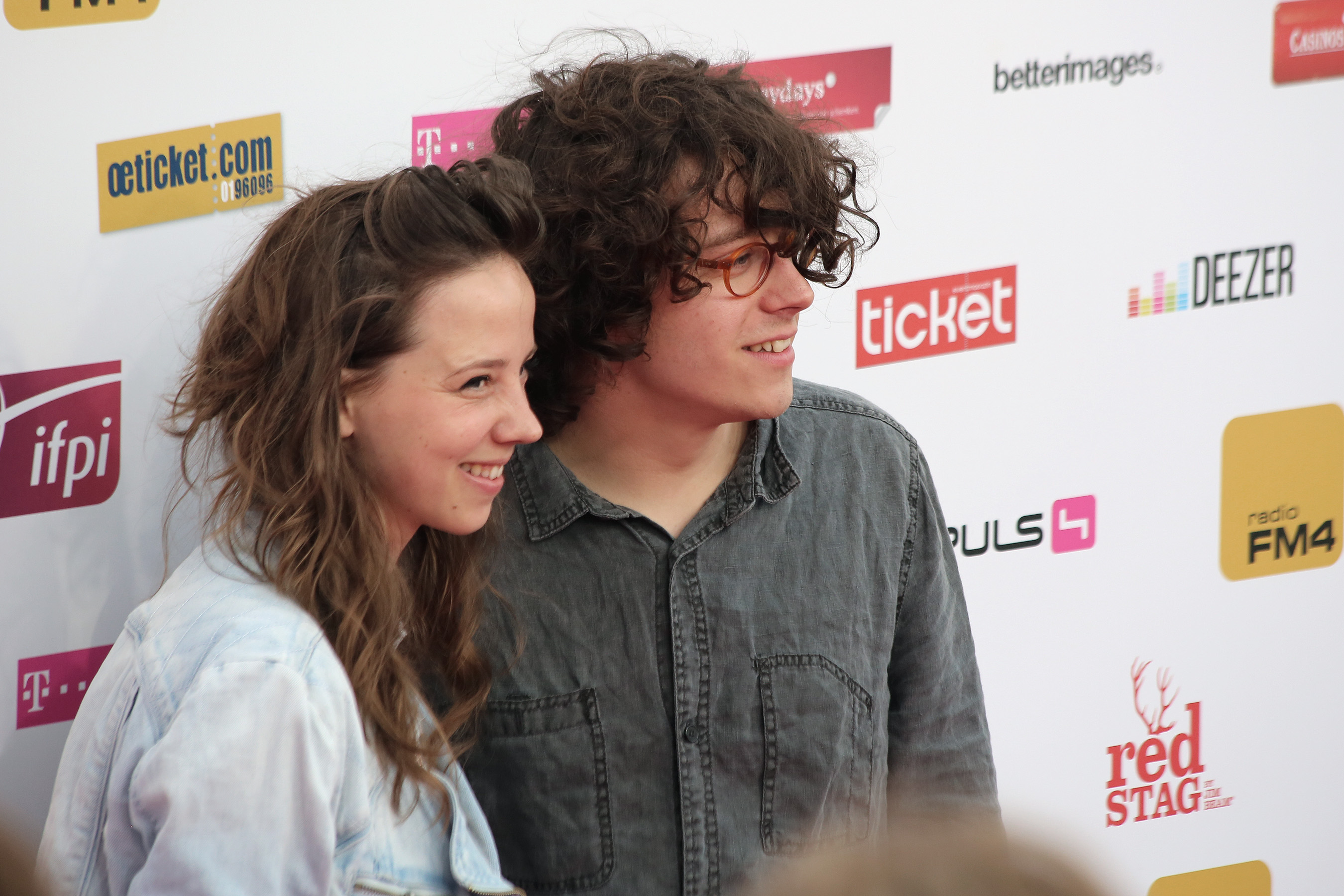 Keiner mag Faustmann at the Amadeus Austrian Music Award at Volkstheater in Vienna